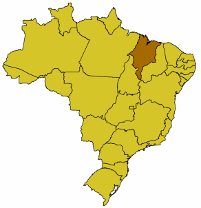 Locator map of Maranhão state -in northern Brazil.